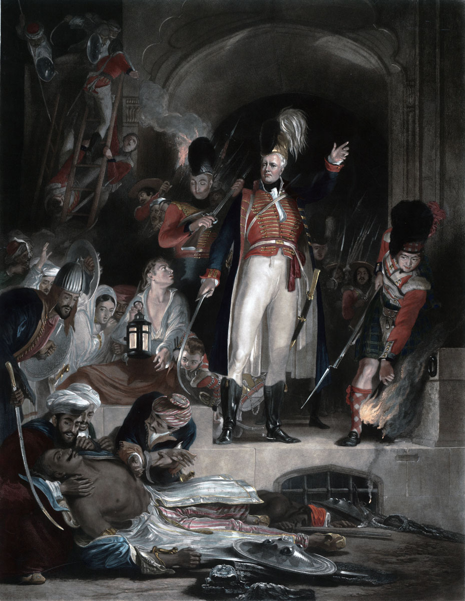 General Sir David Baird discovering the body of Sultan Tippoo Saib after storming Seringapatam.